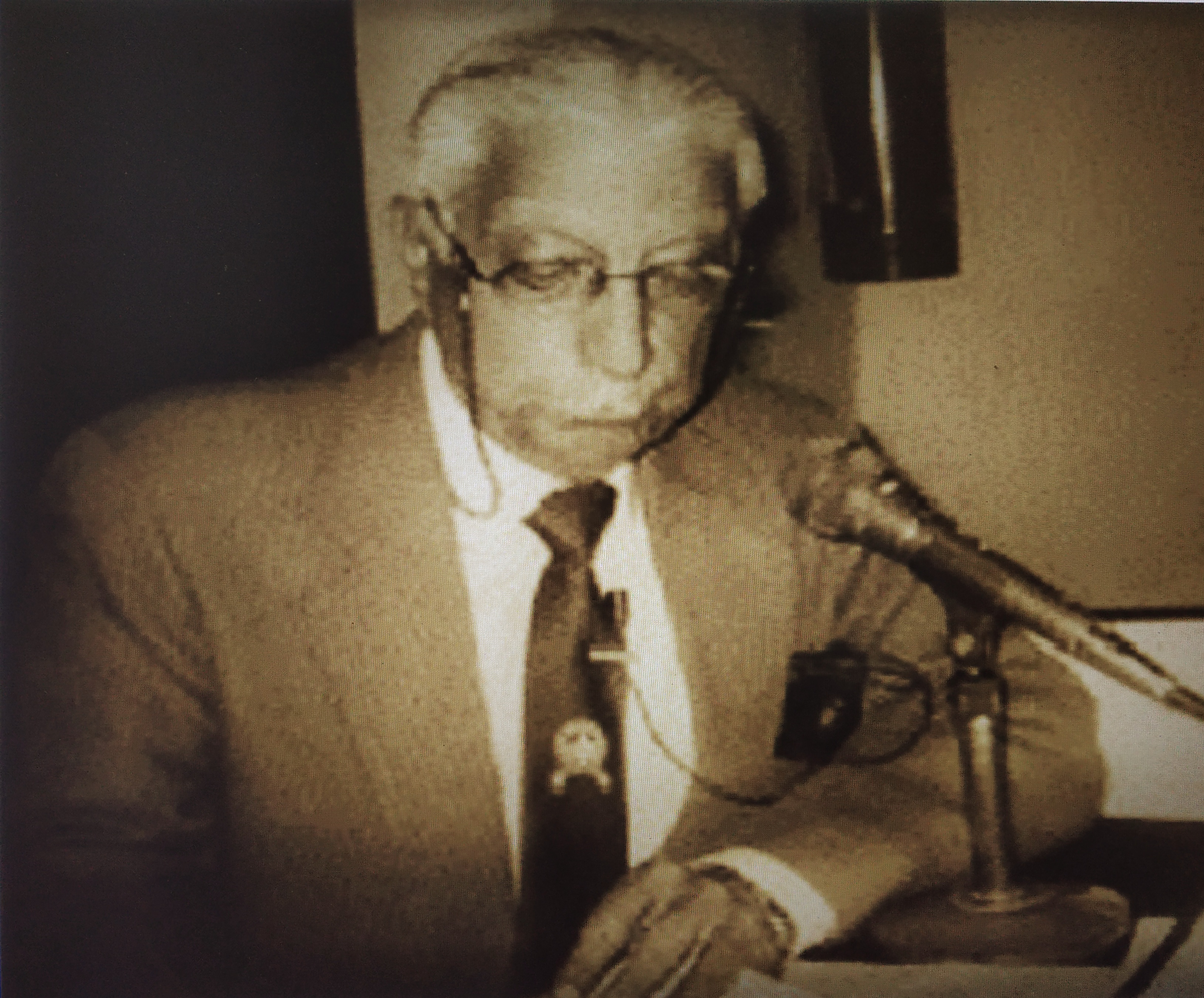 Gulshan Lal Tandon during a meeting wearing Blazer in front of a microphone.